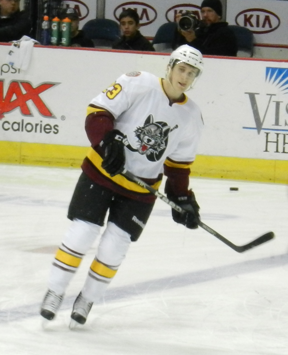 Bill Sweatt playing for the Chicago Wolves during the 2011-12 AHL season